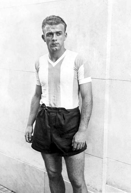 Alfredo Di Stéfano with the Argentina national team.